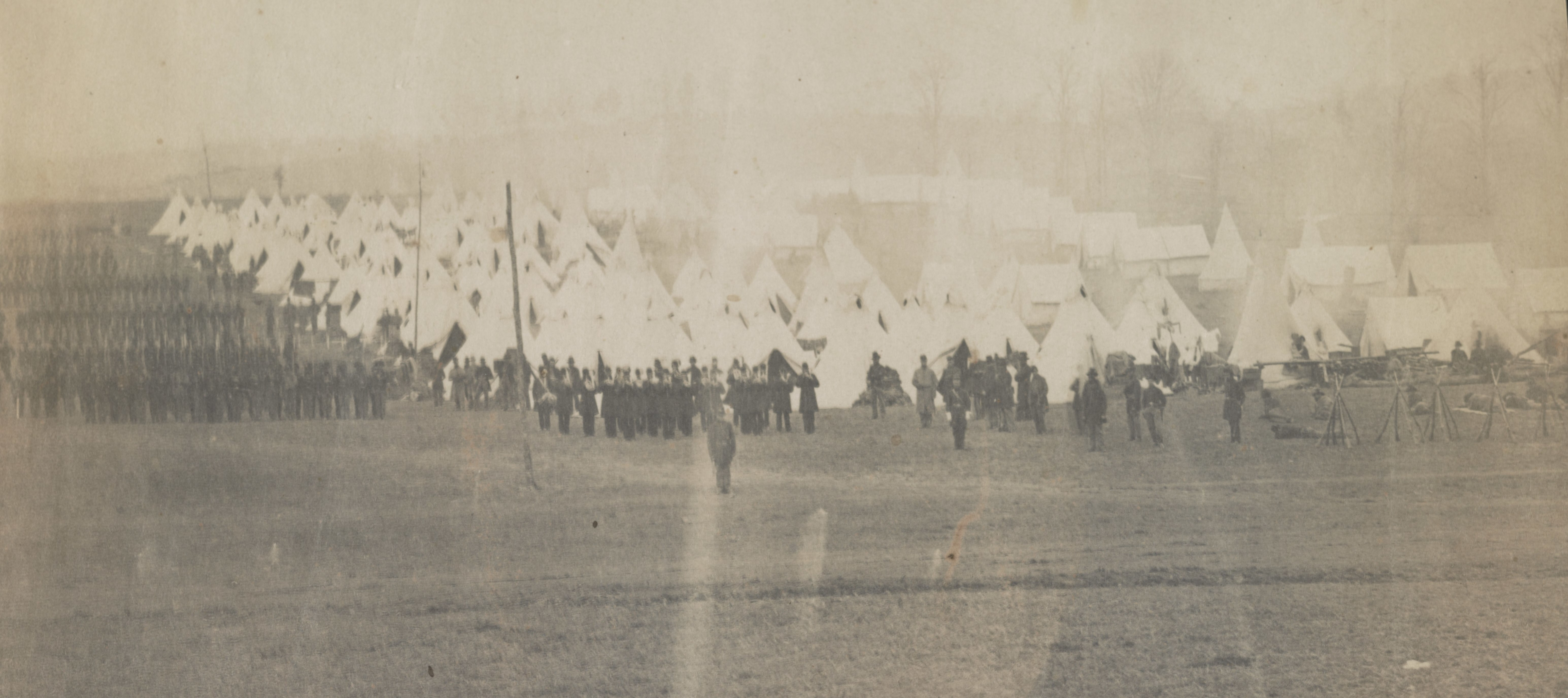 Title: Camp of 4th Vermont Infantry Regiment at Camp Griffin, Langley, Virginia, with troops in formation Abstract/medium: 1 photograph : salted paper print ; sheet 15 x 20 cm. Note: "In early October the four Vermont regiments (Second through Fifth) were transferred to the large Union encampment called Camp Griffin, where thousands of tents clustered around a hill west of the Chain Bridge less than two miles from the village of Lewinsville. There Forrest and the Vermont men settled in for a season of training and preparatory work among the newly-cleared, rolling hills of northern Virginia" (The Civil War Letters of Forrest Little: Camp Griffin)